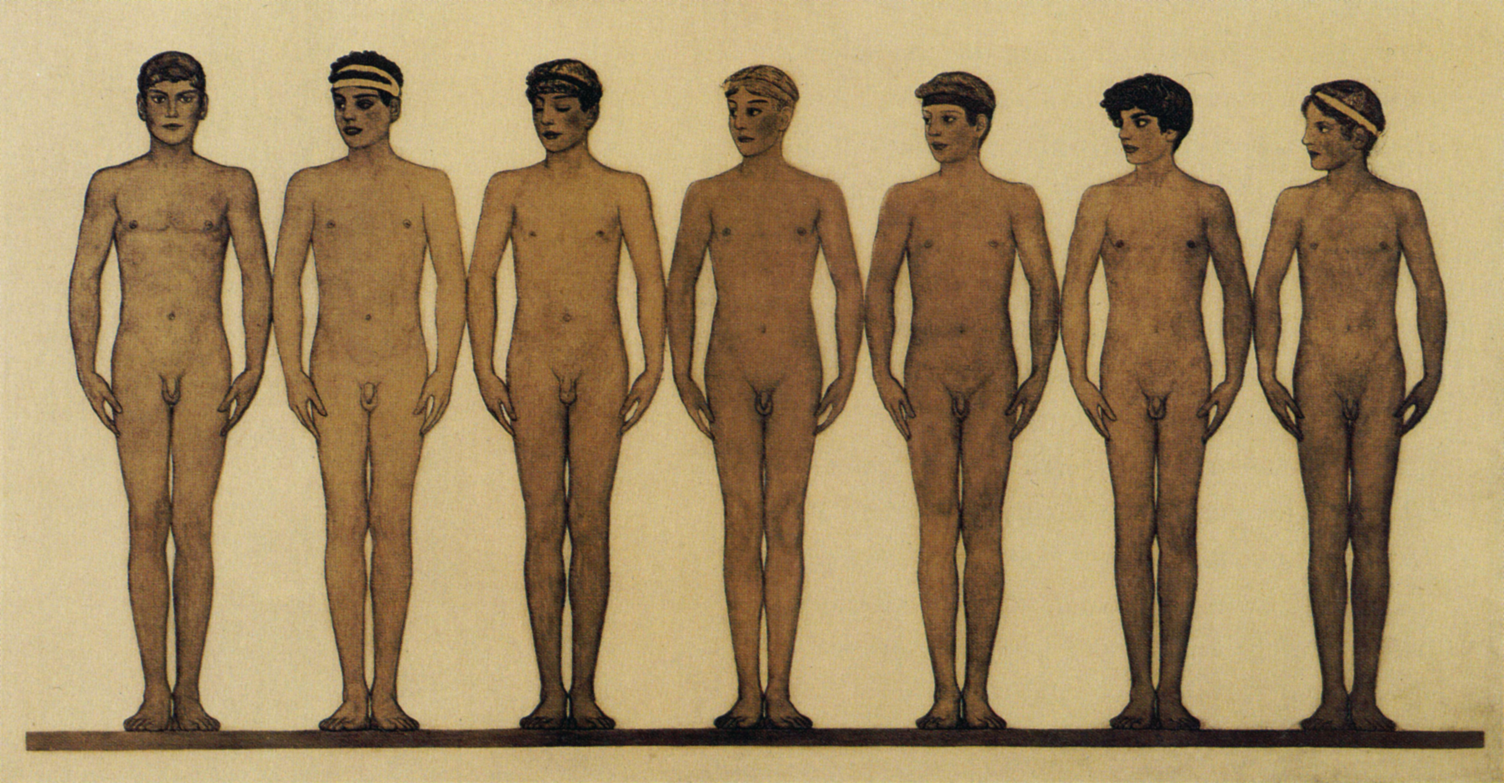 Sascha Schneider, "Gymnasion," ca. 1912 - colored art print (Breitkopf & Härtels Zeitgenössische Kunstblätter)